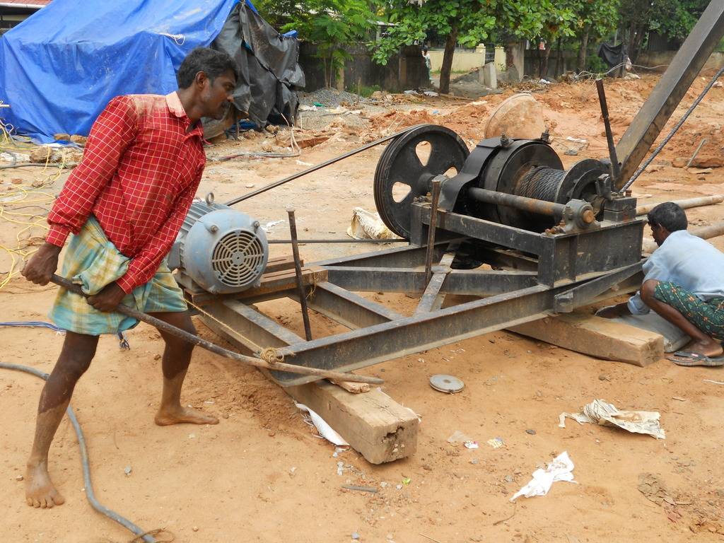 Utholakam